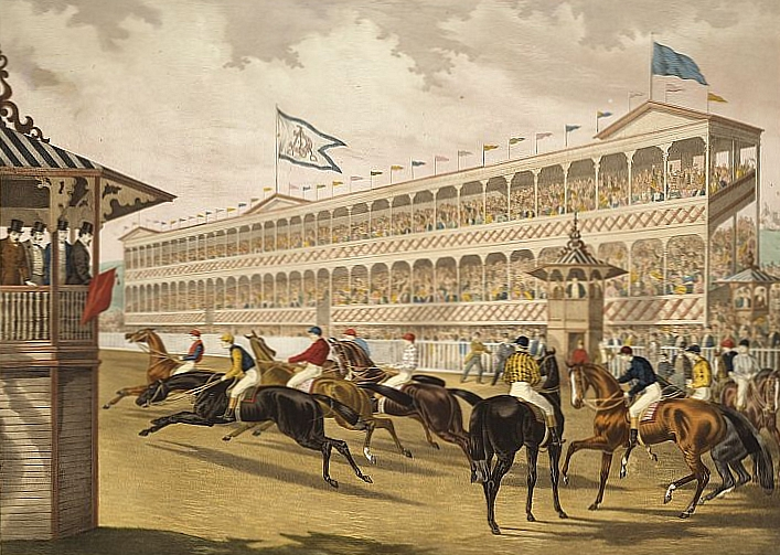 Jerome Park Racetrack, New York City. "The false start." Print showing Jerome Park horse racing track, with crowds watching the false start of a race. Hand-colored lithograph.